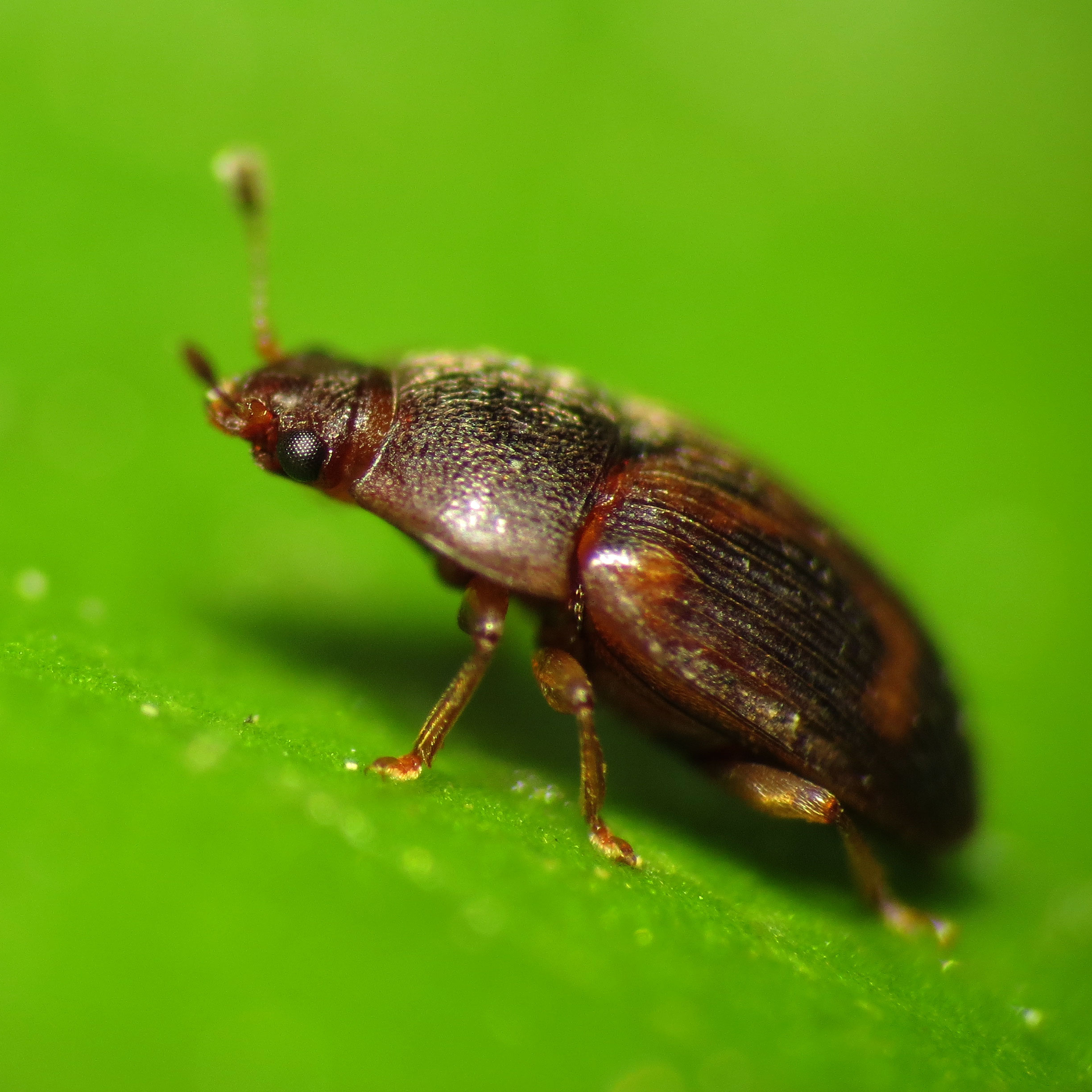 Stelidota geminata. Rock Creek Park, Washington, DC, USA. 31 May 2014.